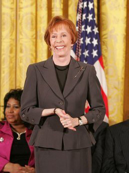 singer, dancer, comedienne, and actress Carol Burnett, receiving a Presidential Medal of Freedom in 2005